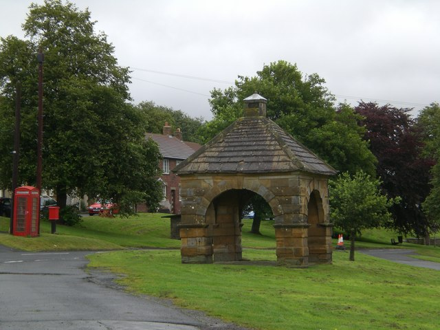 The Cross on Stamfordham Village Green The Market House resting on four open arches was erected by Sir John Swinburne, 5th Bart. in 1785. See Swinburne_Baronets for his family's history.